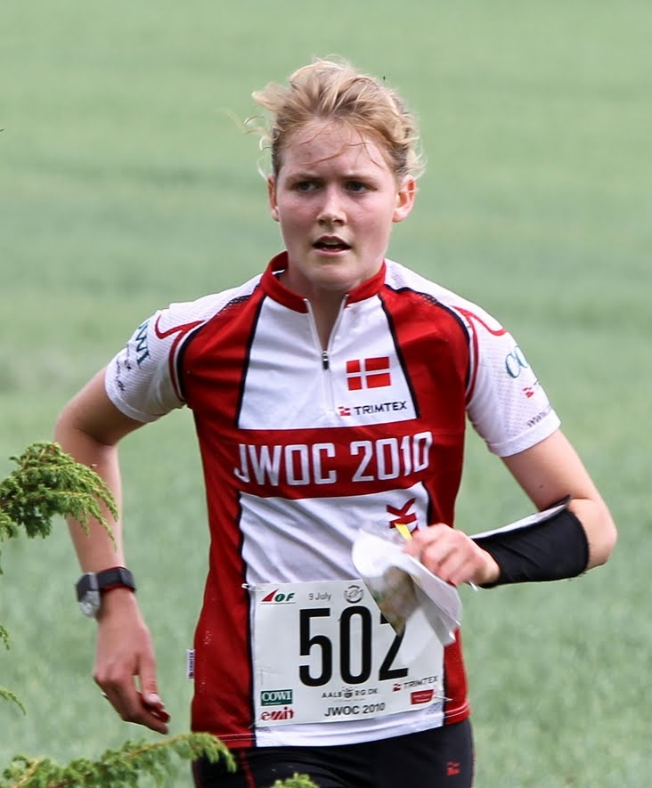 Emma Klingenberg (DEN) at JWOC 2010